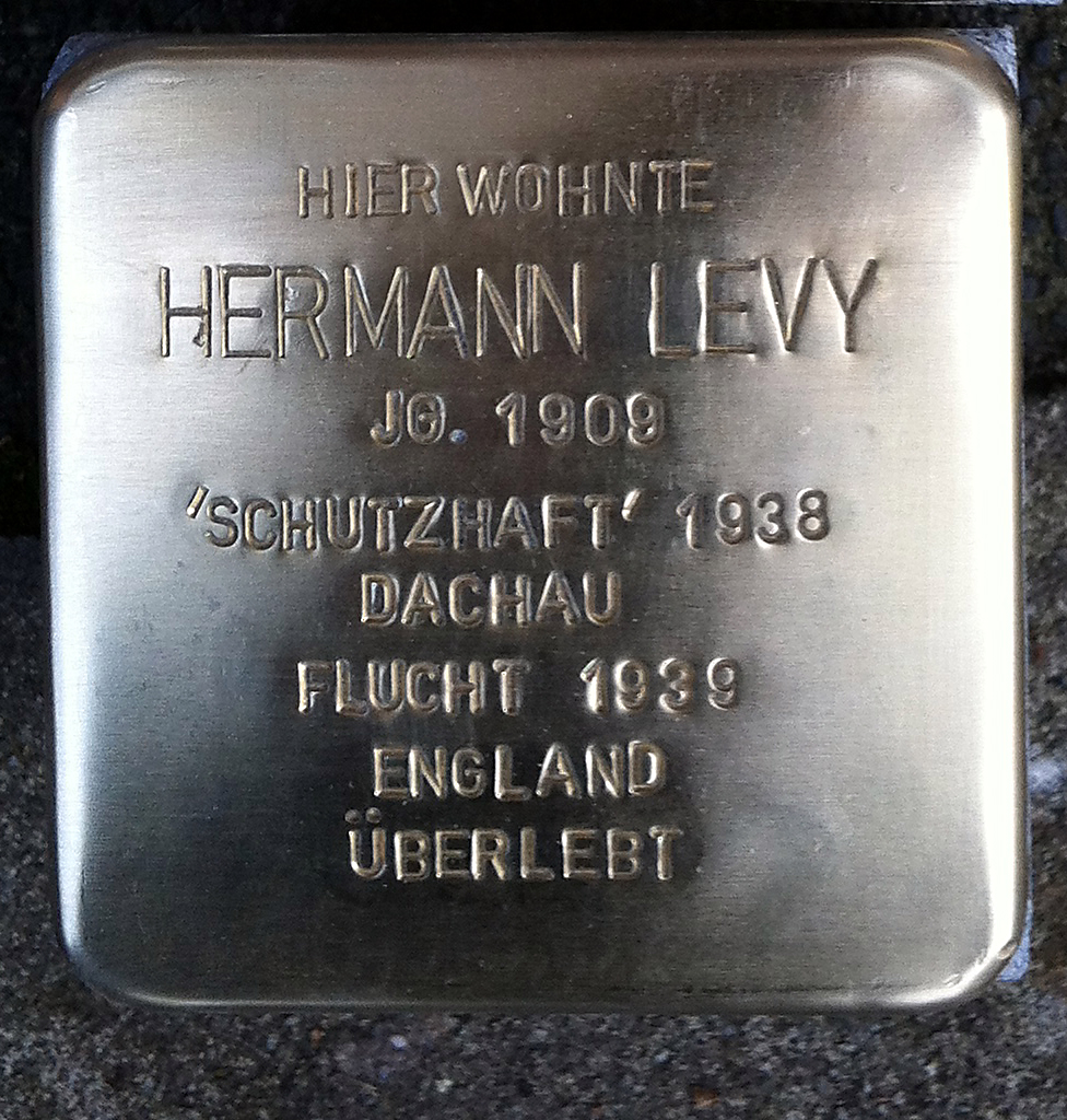 Stolperstein - Stumbling Stone in Nettetal, NRW, Germany Hermann Levy